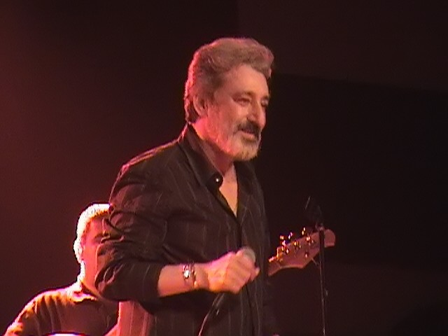 Ebi (Iranian artist), Live in Montreal, Canada.